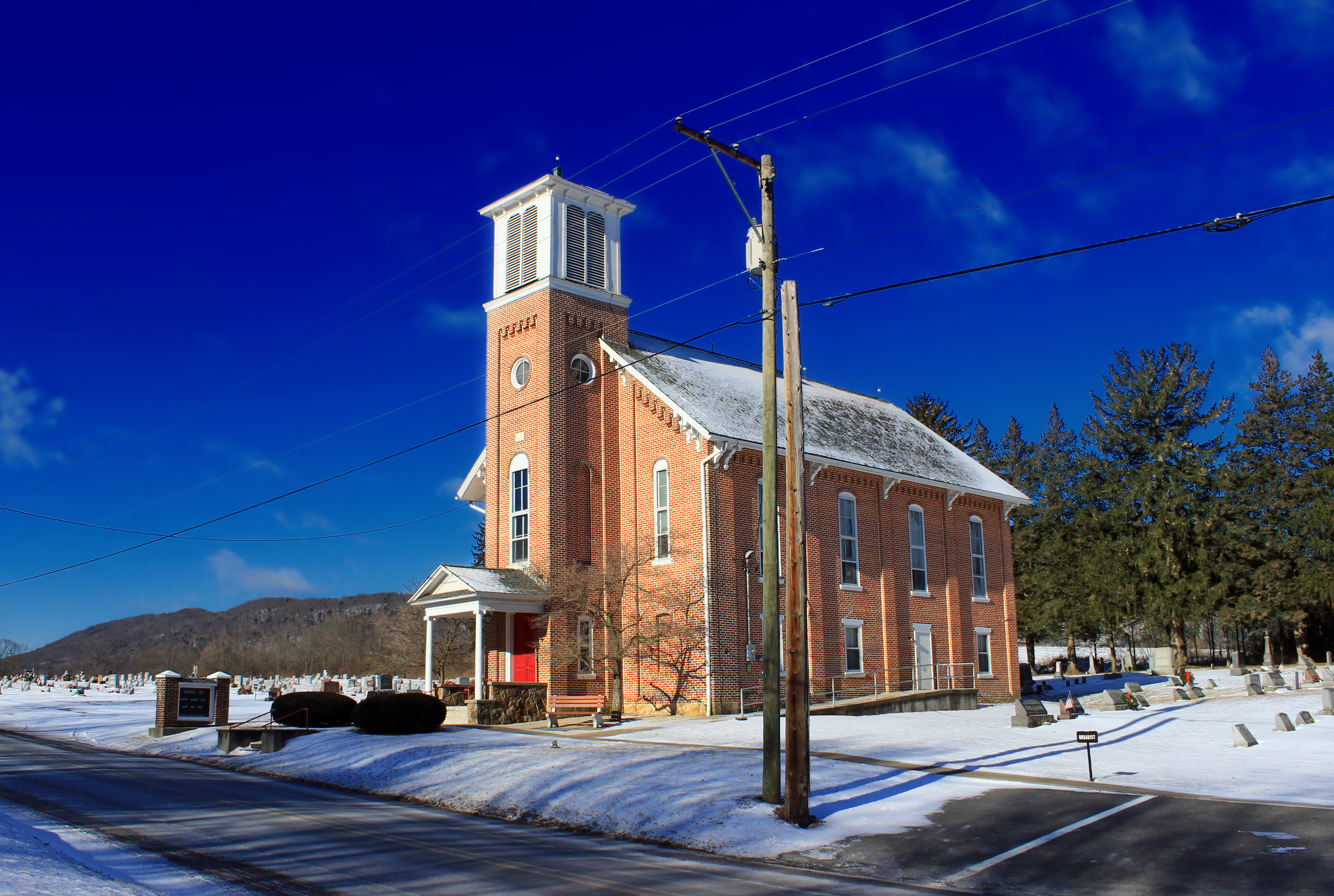 Emmanuel United Church of Christ along PA Route 26 in the hamlet of Jacksonville, Marion Township, Centre County.